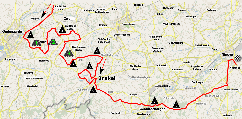 Circuit Het Nieuwsblad 2018, for women part 2 of the circuit. Reference: Roadmap version 03/12/2017, consulted on official website on 05/01/2018